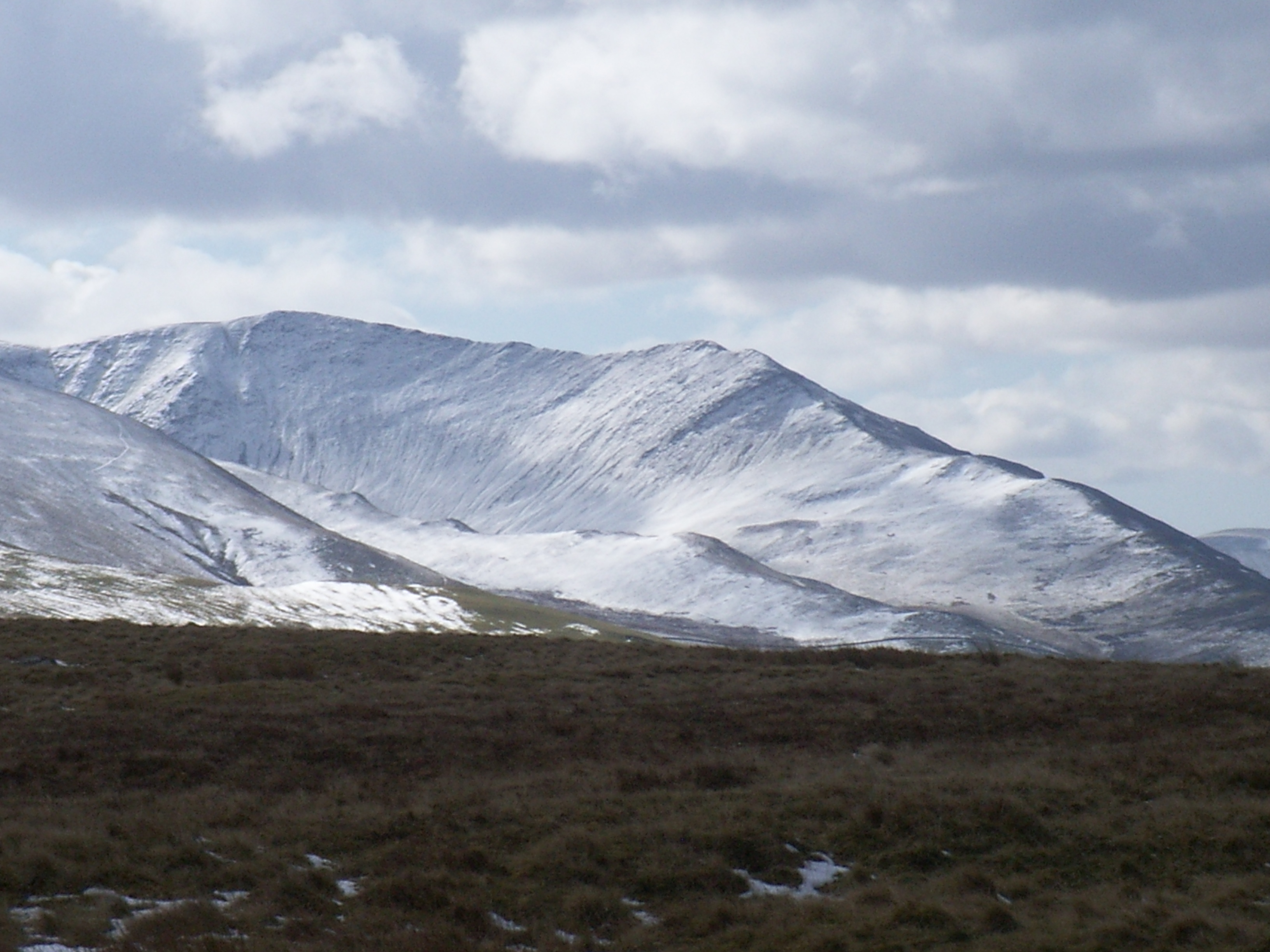 Ullock Pike seen from the north, in snow. English Lake District. Own photo. (March 2007)